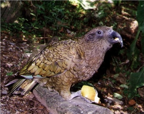 Picture of a Kea (Nestor notabilis) taken by me